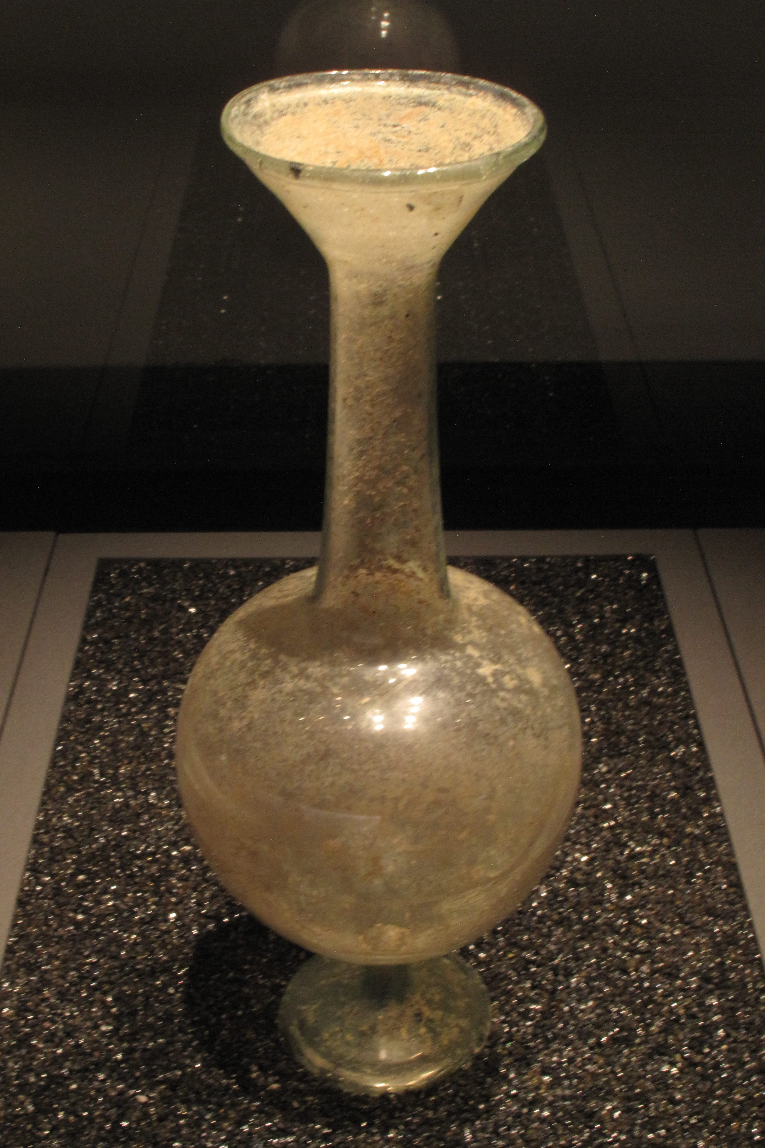 Bottle, Syria (?), 6th CE. Catalogue II of the Wold collection, n° 161. On display at the Landesmuseum Württemberg.